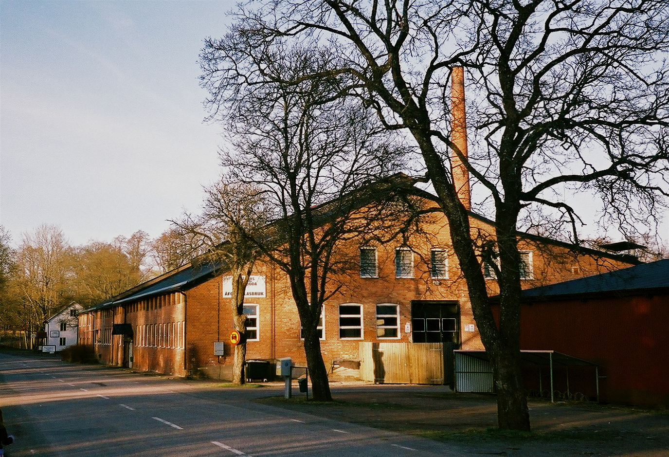 Åfors glasbruk, a Swedish glassworks situated in Åfors in Emmaboda Municipality.